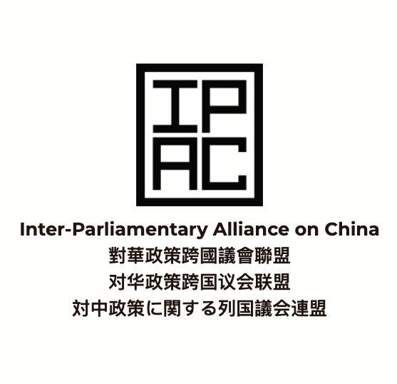 The Inter-Parliamentary Alliance on China was launched on 4 June 2020 by 19 lawmakers from eight nations. The alliance formed by Iain Duncan Smith and supported by conservative and progressive leaders including British Labour Peer Helena Ann Kennedy, Baroness Kennedy of The Shaws US Republican Marco Rubio and Australian Liberal Andrew Hastie (politician).